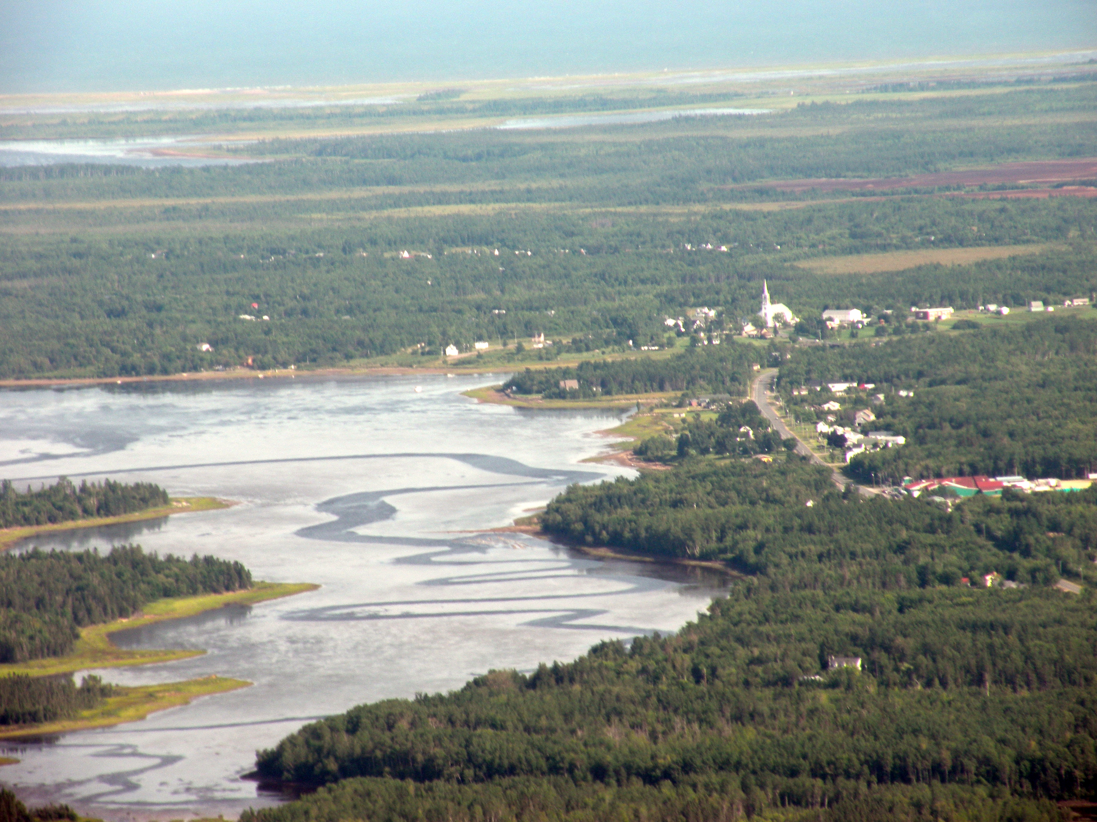 Aerial view of St. Simon, New Brunswick.